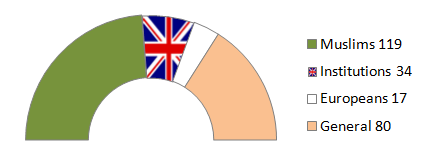 Distribution of electorates in Bengal Legislative Assembly after the Communal Award of 1932.